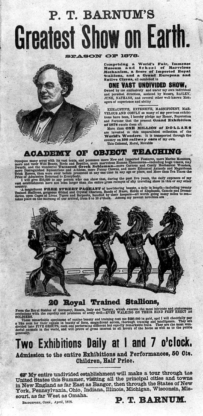 Ad for "P.T. Barnum's Greatest show on Earth" Digital ID: cph 3a46039 Source: b&w film copy neg. Reproduction Number: LC-USZ62-45853 (b&w film copy neg.)